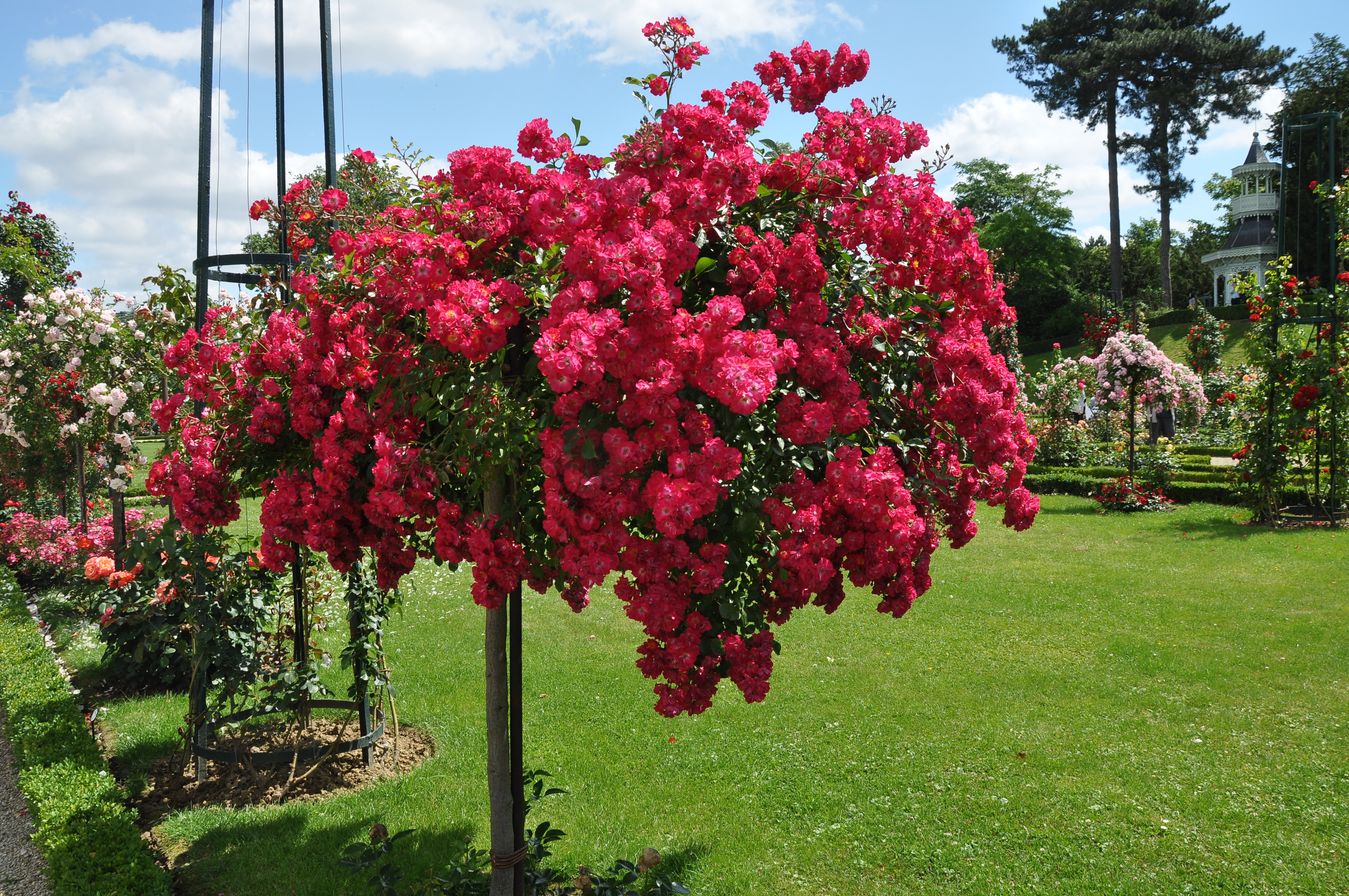 Rosa Pollux (breded by Vittorio Barni, Italy, 1987) in the Rose Garden of Bagatelle in Paris, France.